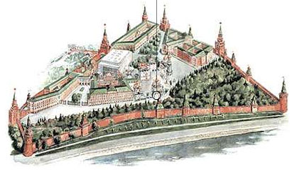 Overview map of the Moscow Kremlin. Location of The Cathedral of the Archangel marked.